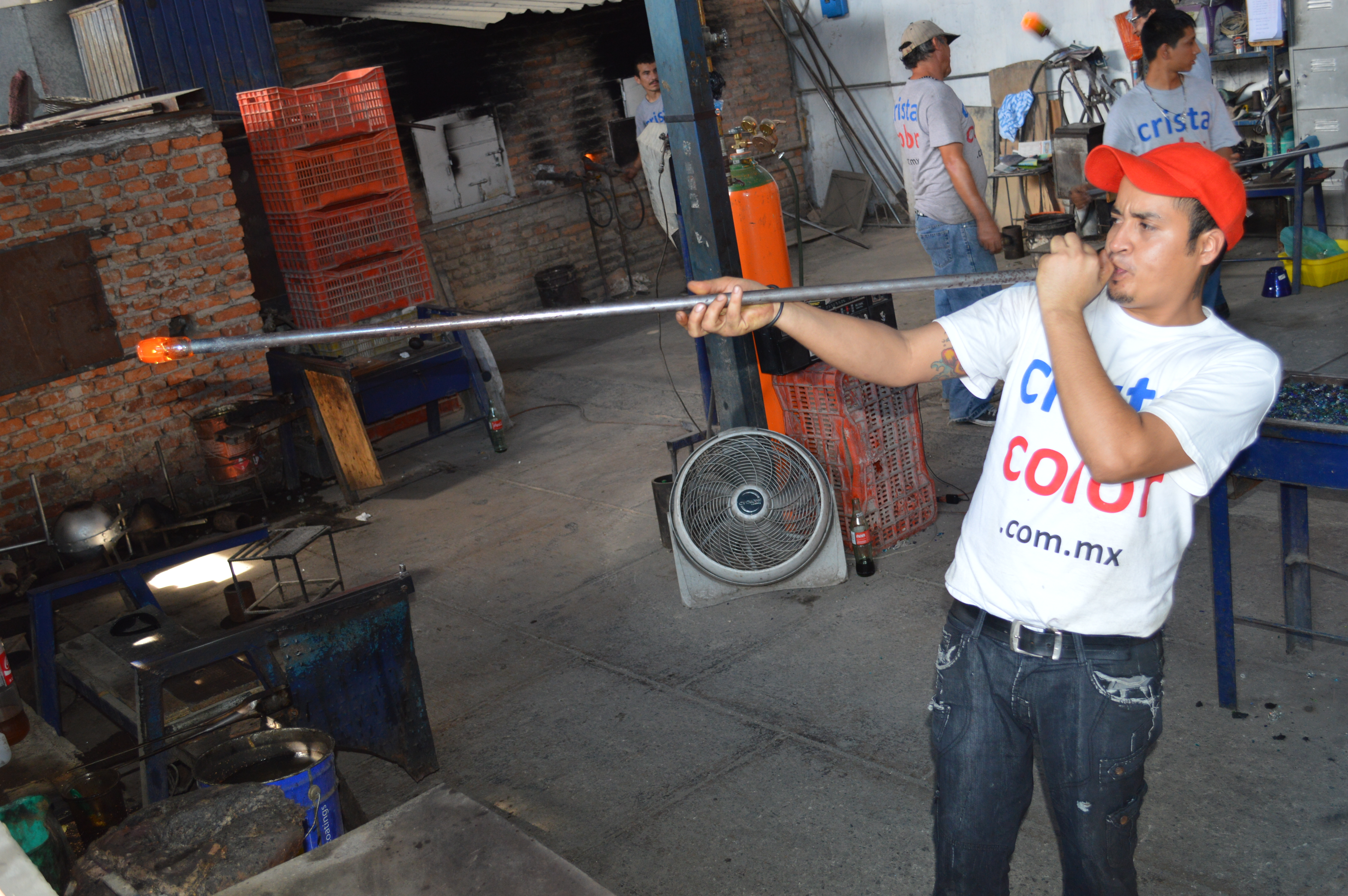 Blowing as small glass container at the Cristacolor glass blowing workshop open to public viewing in Tonalá, Jalisco, Mexico